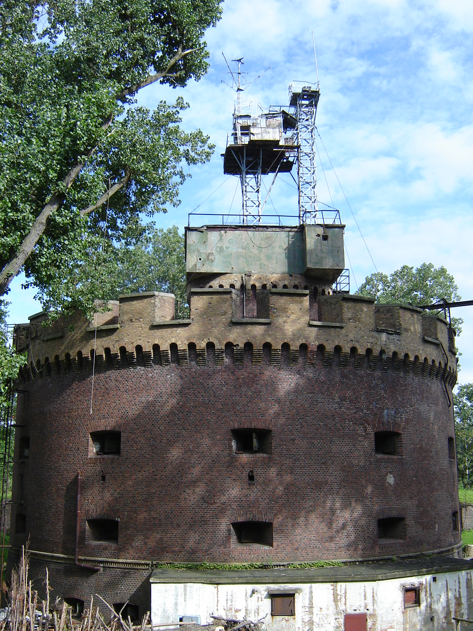 Fort Anioła in Świnoujście, Poland